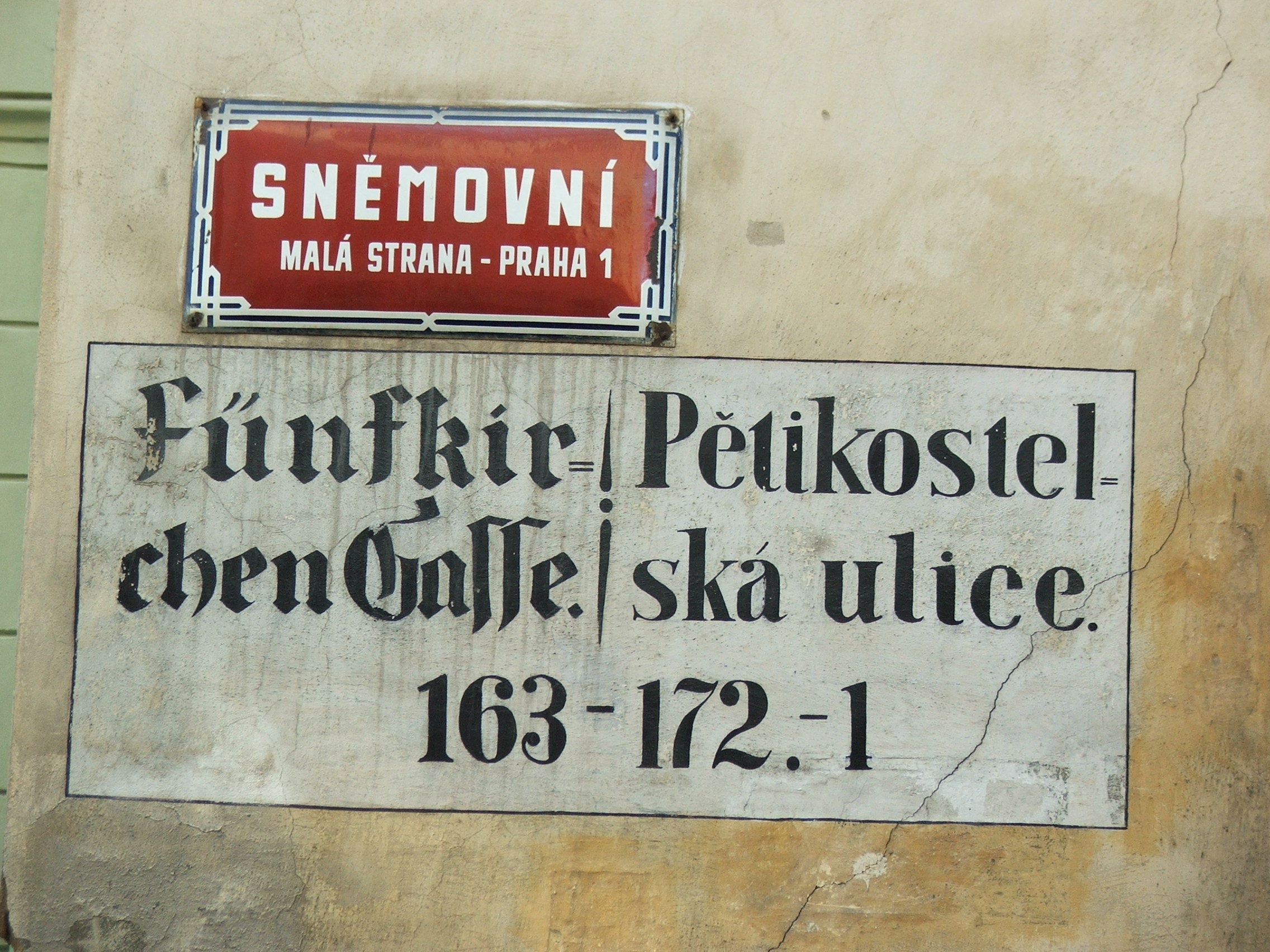 Old street signs in Prague - Malá Strana in both Czech and German